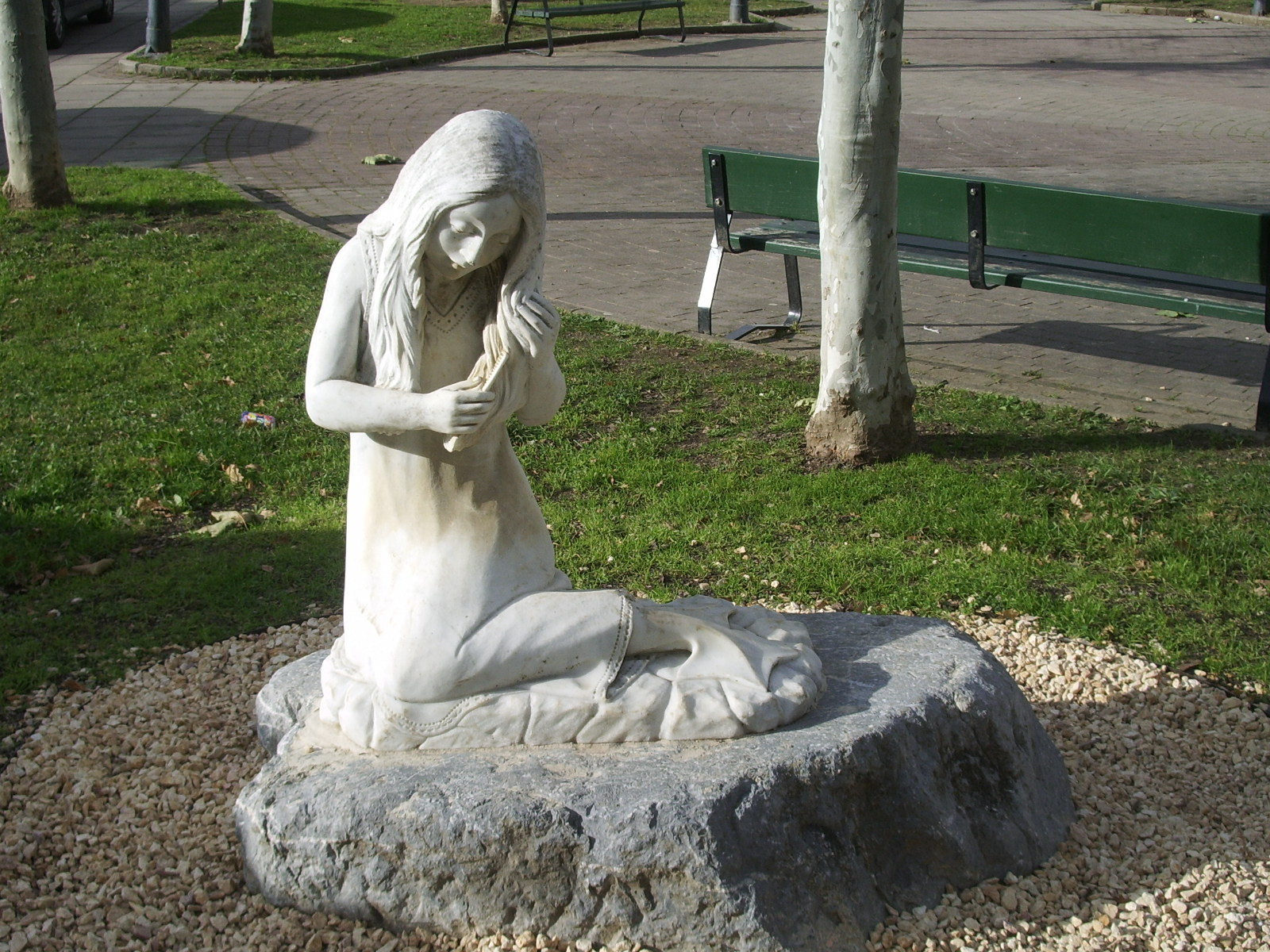 Sculpture of a Lamia, from Basque mythology, in Garagartza, Arrasate, Guipuscoa, Basque Country